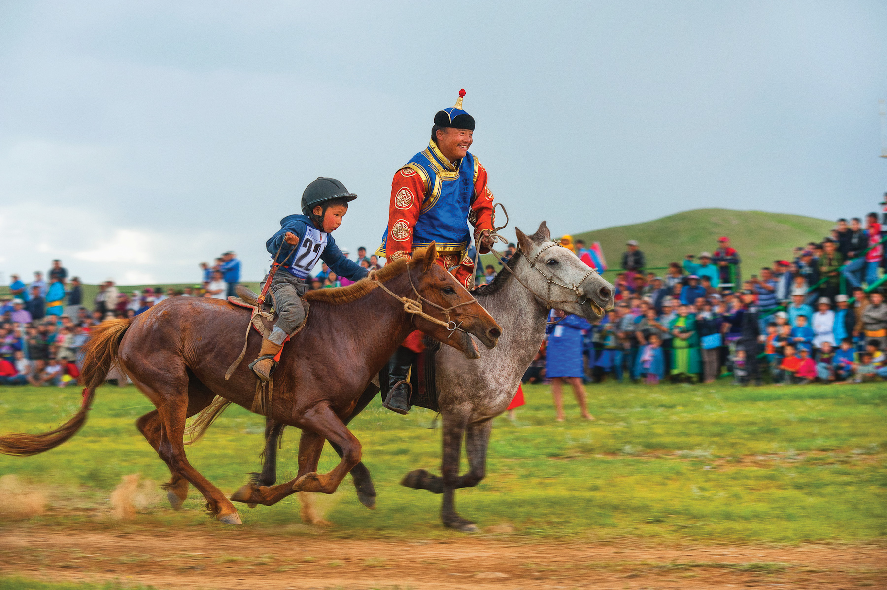 Naadam Festival